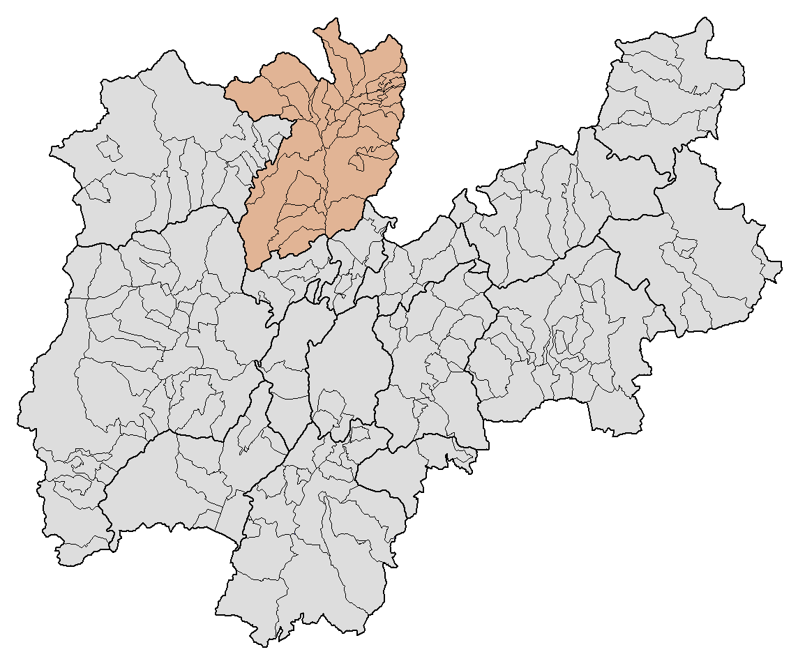 Location map of "Comunità della Val di Non" (6)